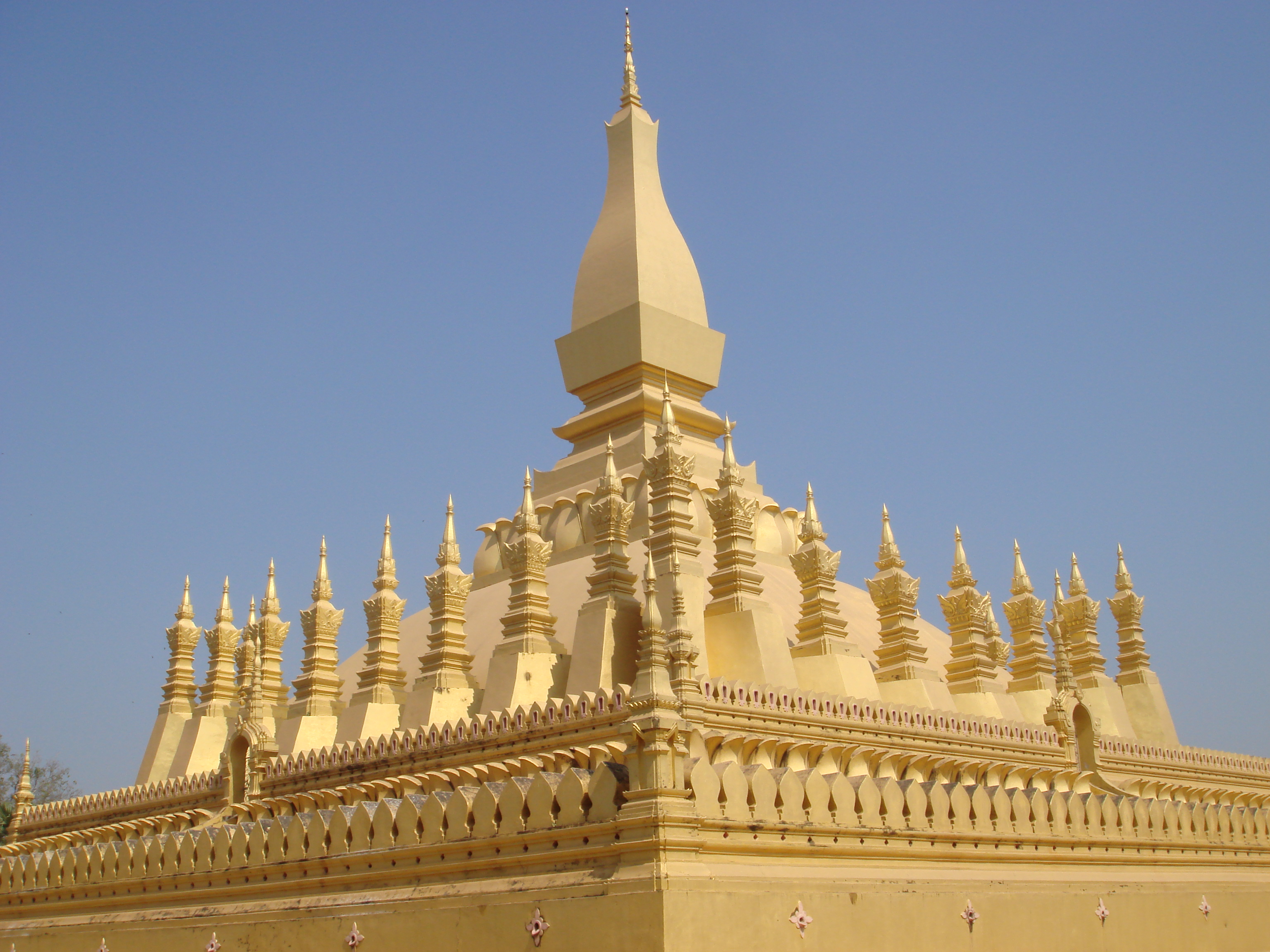 Stupa Pha That Luang (Vientiane, Laos).